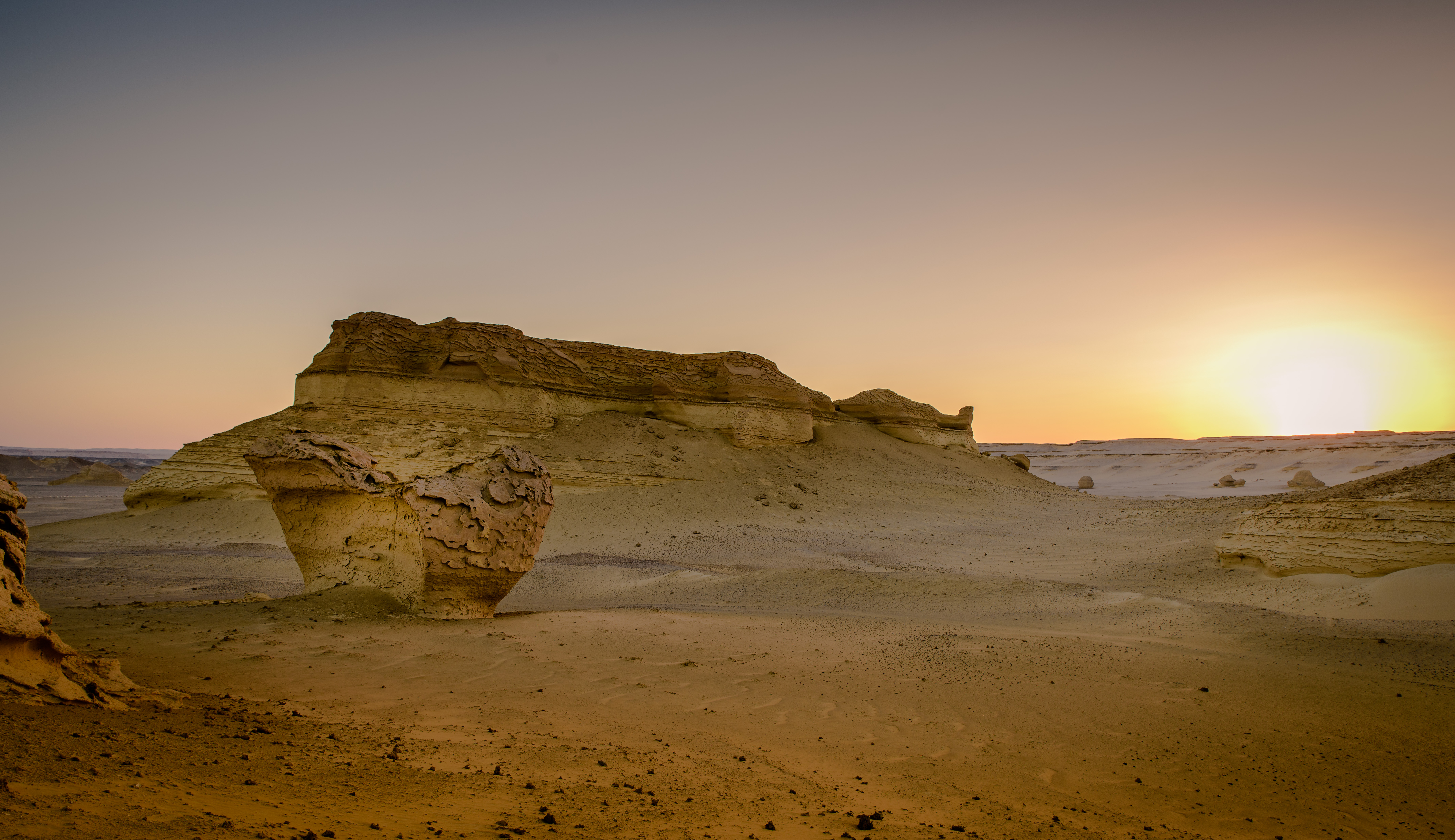 sunset at wadi hitan